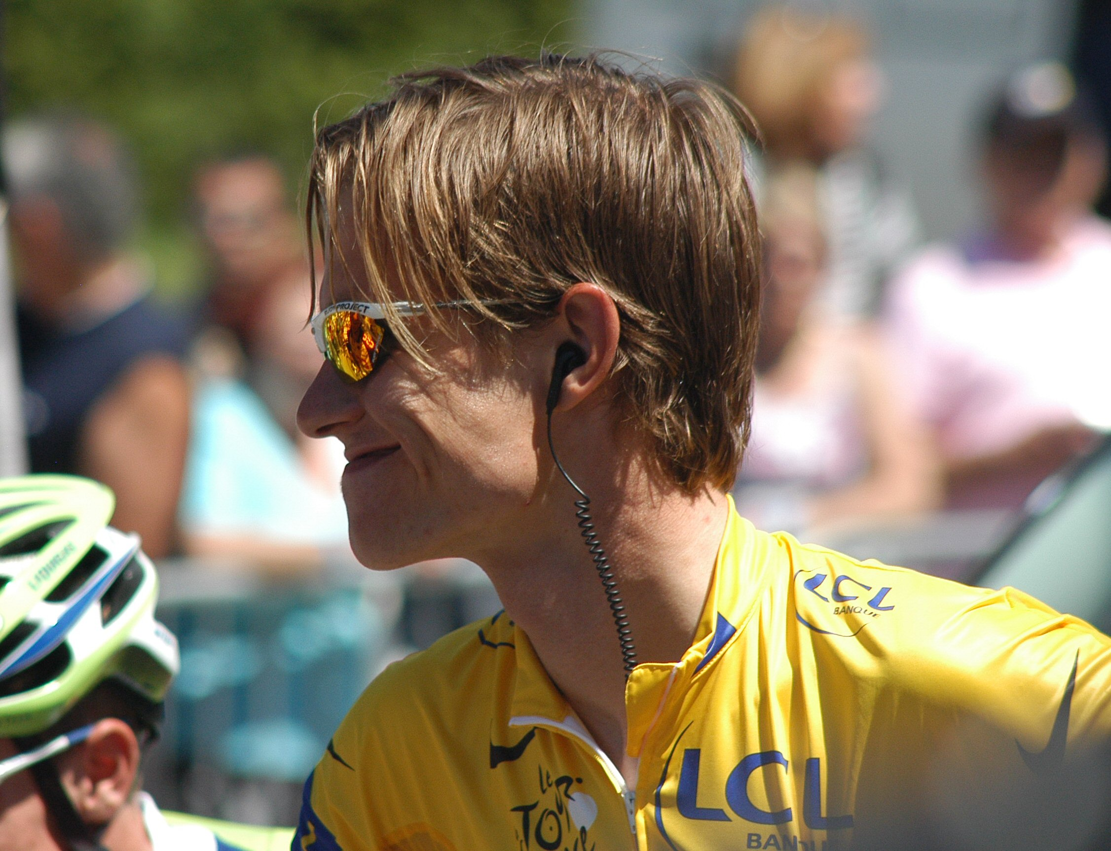 Linus Gerdemann in the yellow jersey in Le Grand Bornand at the start of stage 8 of the Tour de France 2007.